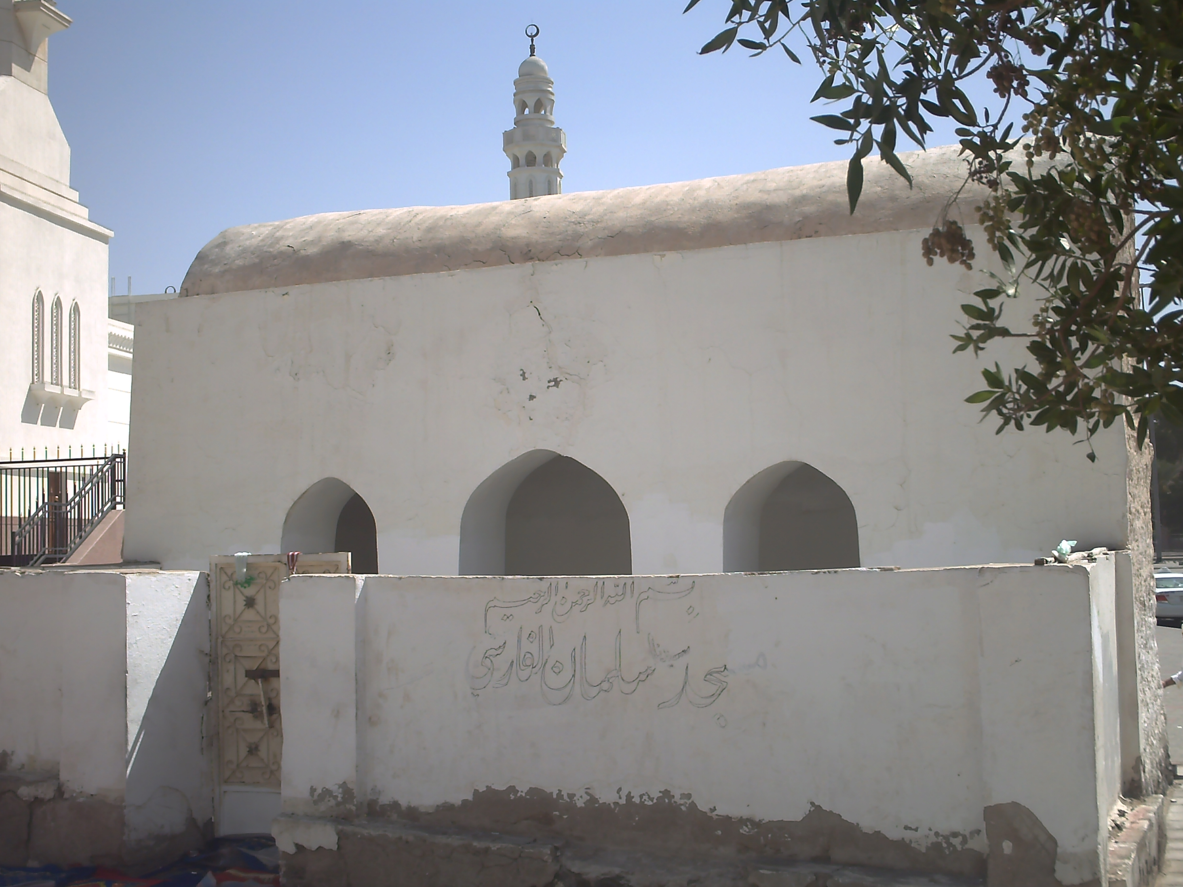 Mosque Salaman pharsi, battle of trench, Medina where Rufaida Al-Aslamia treated the injured.